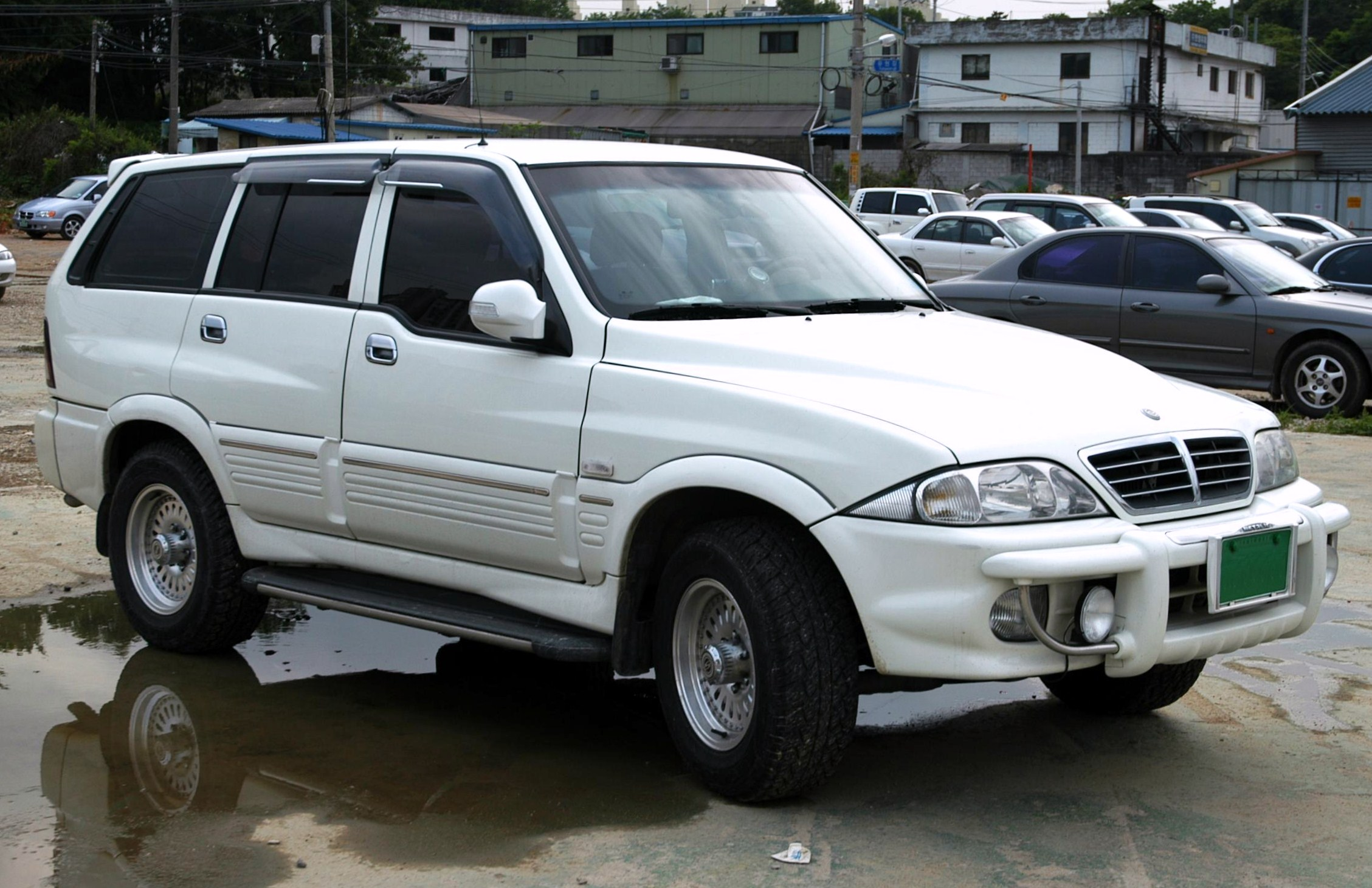 Korea SsangYong Motor Company SUV Musso